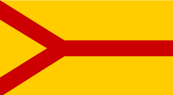 Flag of Hanö